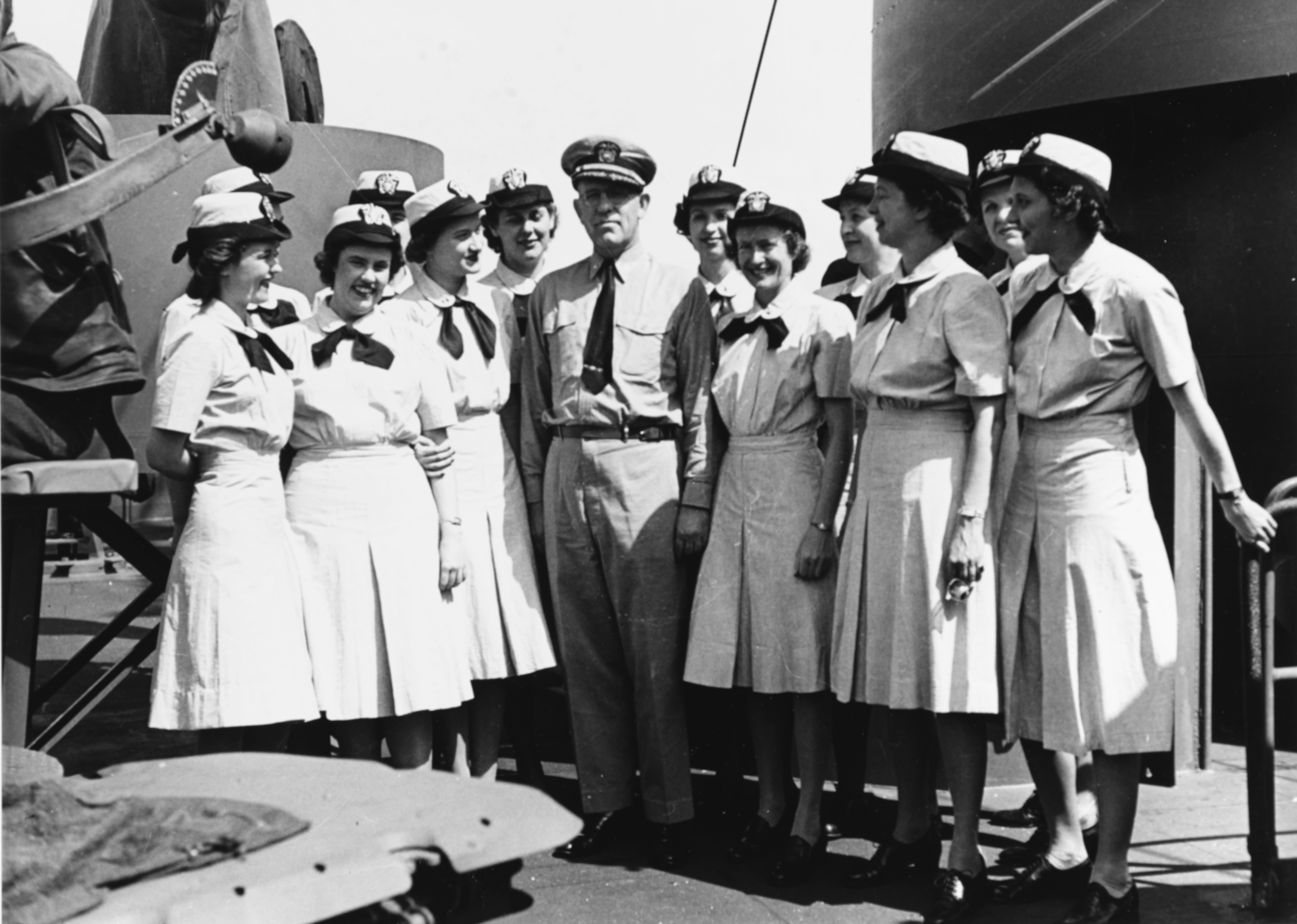 WAVES officers pose on the navigation bridge of the U.S. Navy troop transport USS General Omar Bundy (AP-152) with the ship's Commanding Officer, Captain Lawrence Wainwright, USN, 25 June 1945. They were en route to Pearl Harbor, Hawaii.